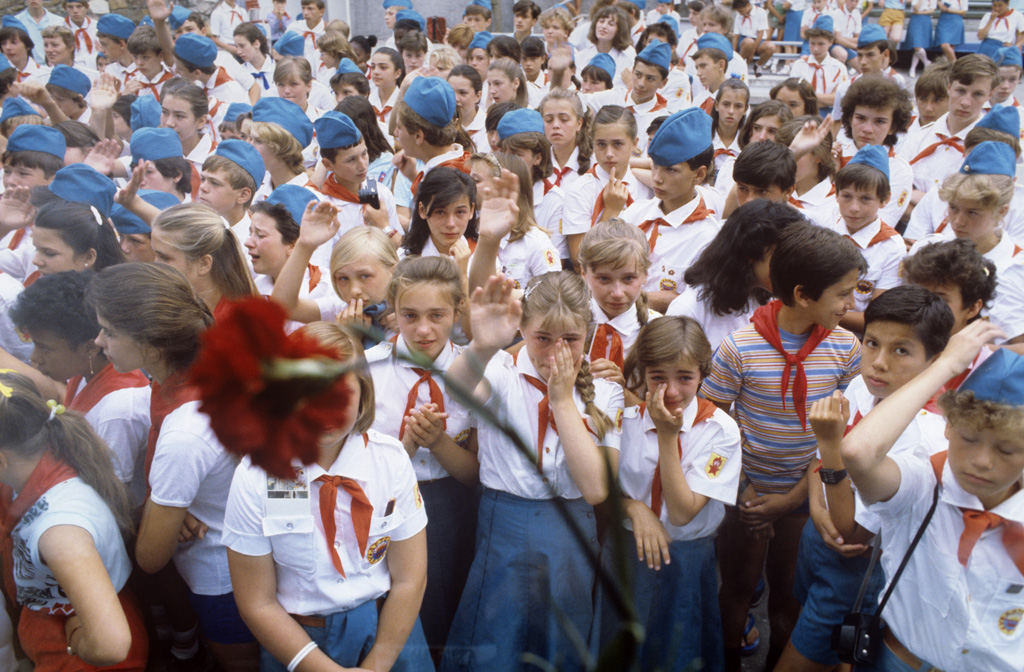 “Black Sea coast of the Crimea”. Black Sea coast of the Crimea. American schoolchildren at the Artek pioneer camp.